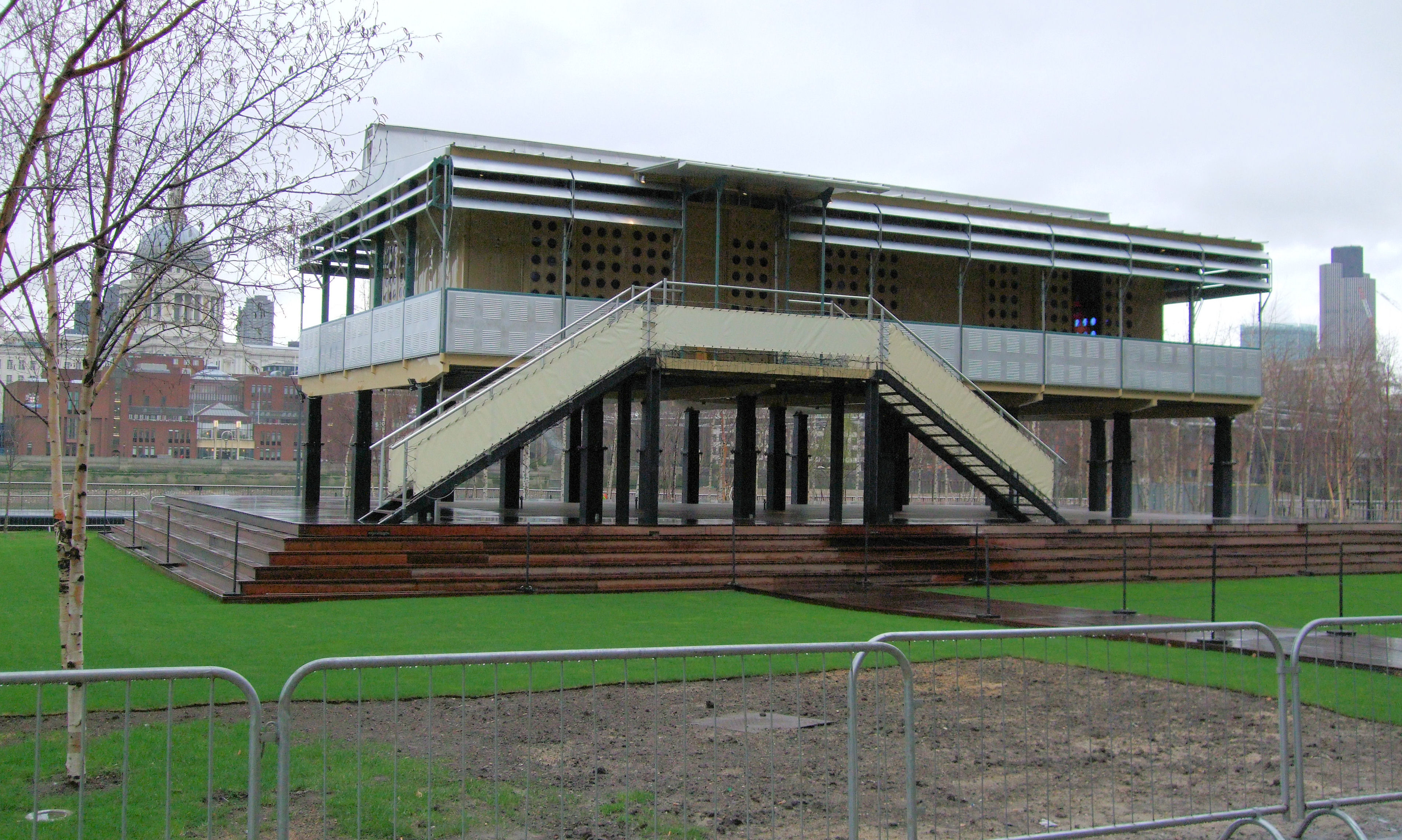 La Maison Tropicale - The Tropical House. The prototype house, designed by the French architect Jean Prouvé (1901–84), for 1950s colonial West Africa, is erected outside Tate Modern. Visitors are able to walk around this ‘flat pack’ house which was originally erected in Brazzaville, Republic of the Congo, in 1951. In 2000 the house was found in Brazzaville, in a dilapidated state and riddled with bullet holes. The house was dismantled, returned to France and restored.